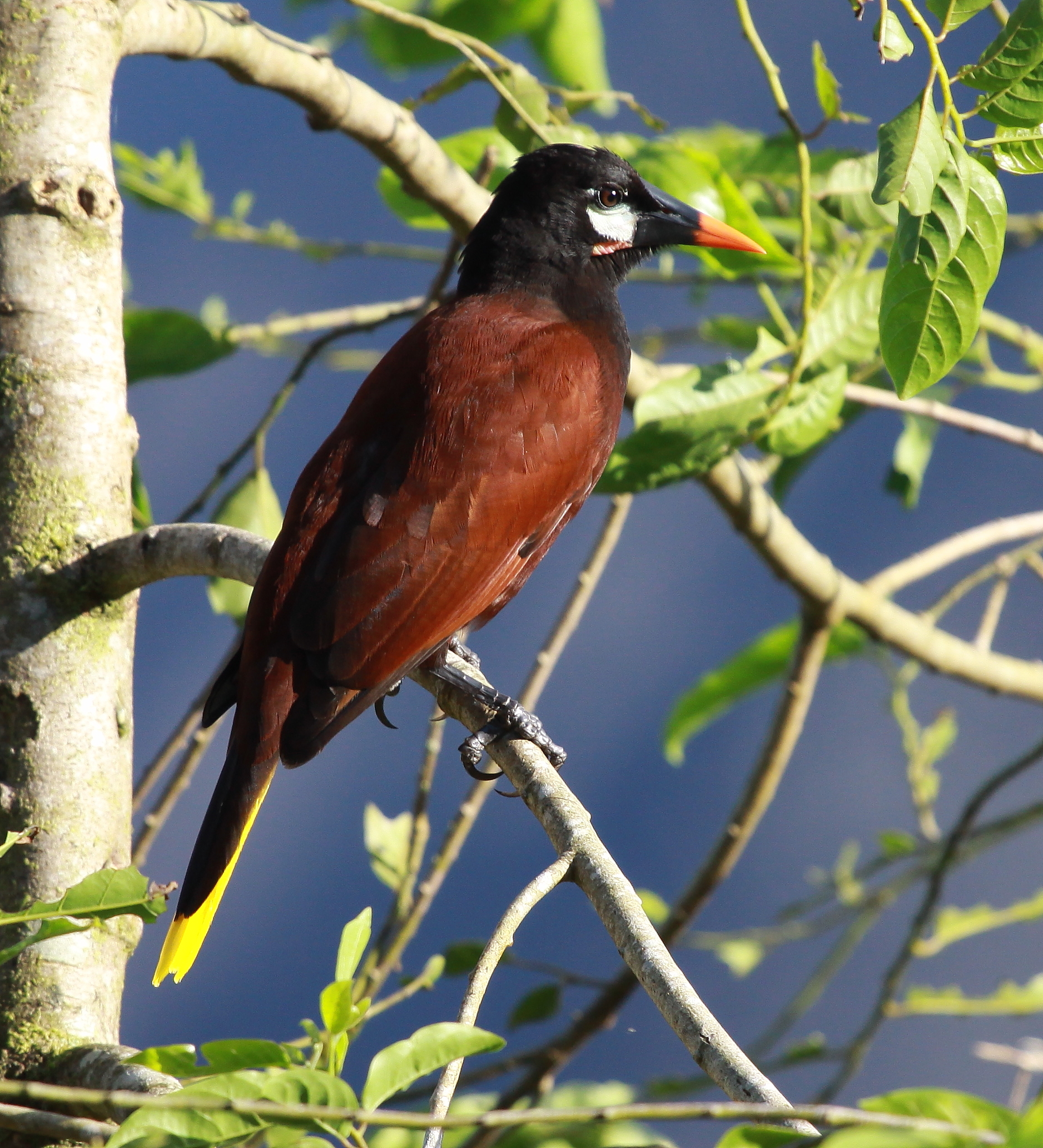 Montezuma Oropendola (Psarocolius montezuma)